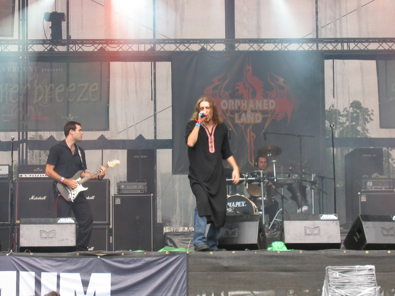 Orphaned Land performing live at Summer Breeze Open Air, 2005